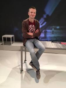 Attila Galambos